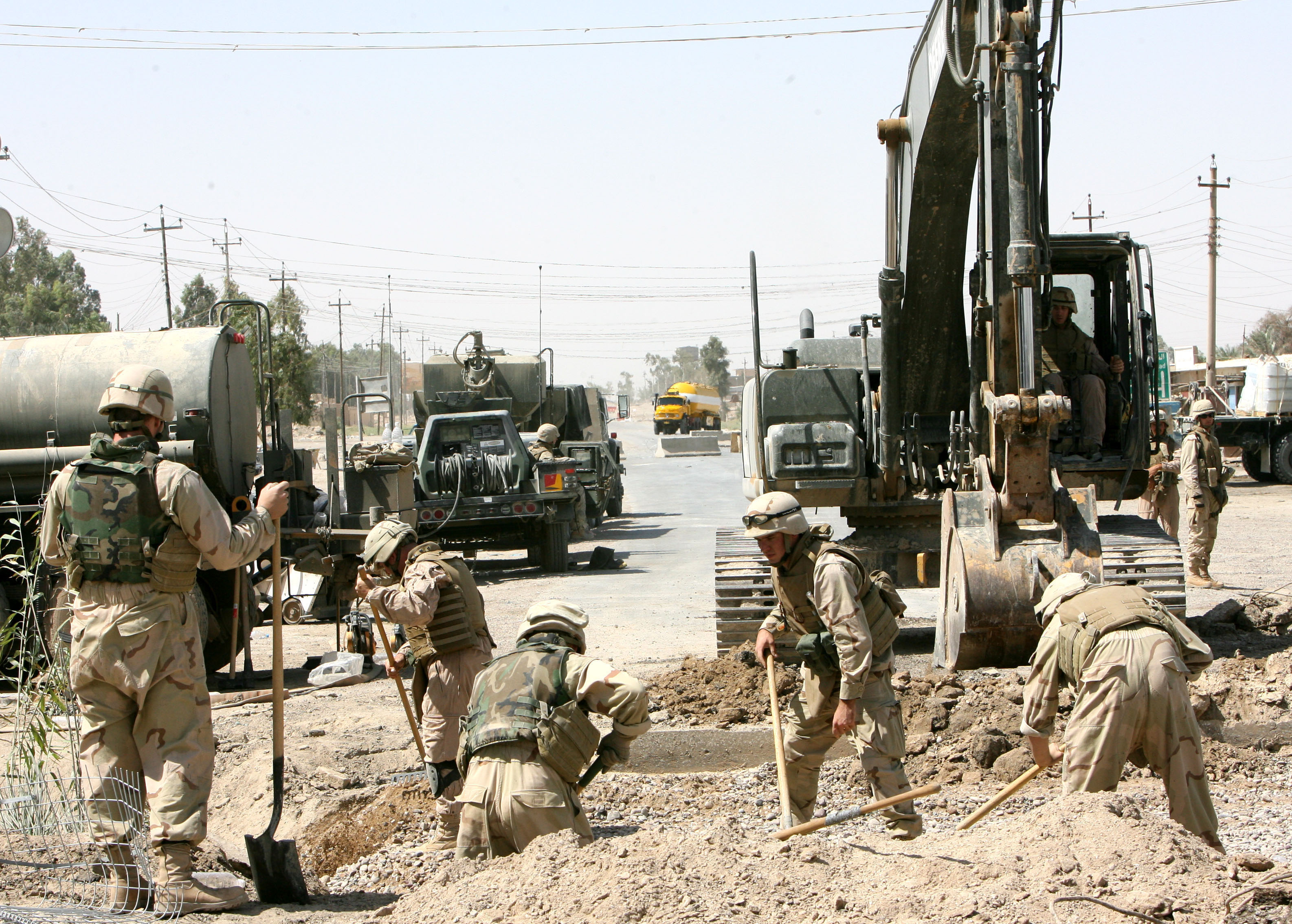 Seabees prepare a site for the construction of a bridge. Seabees assigned to Naval Mobile Construction Battalion Four Zero (NMCB-40) were tasked with rebuilding a damaged bridge used heavily by Iraqi citizens.